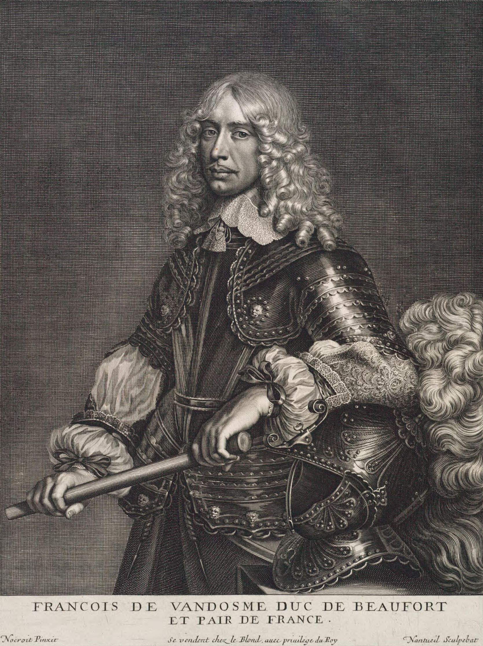 Francis of Vendome, Duke of Beaufort (1616-1669)